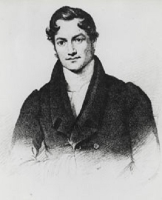 George Pritchard (1 August 1796 - 6 May 1883) was a British Christian missionary and diplomatist.